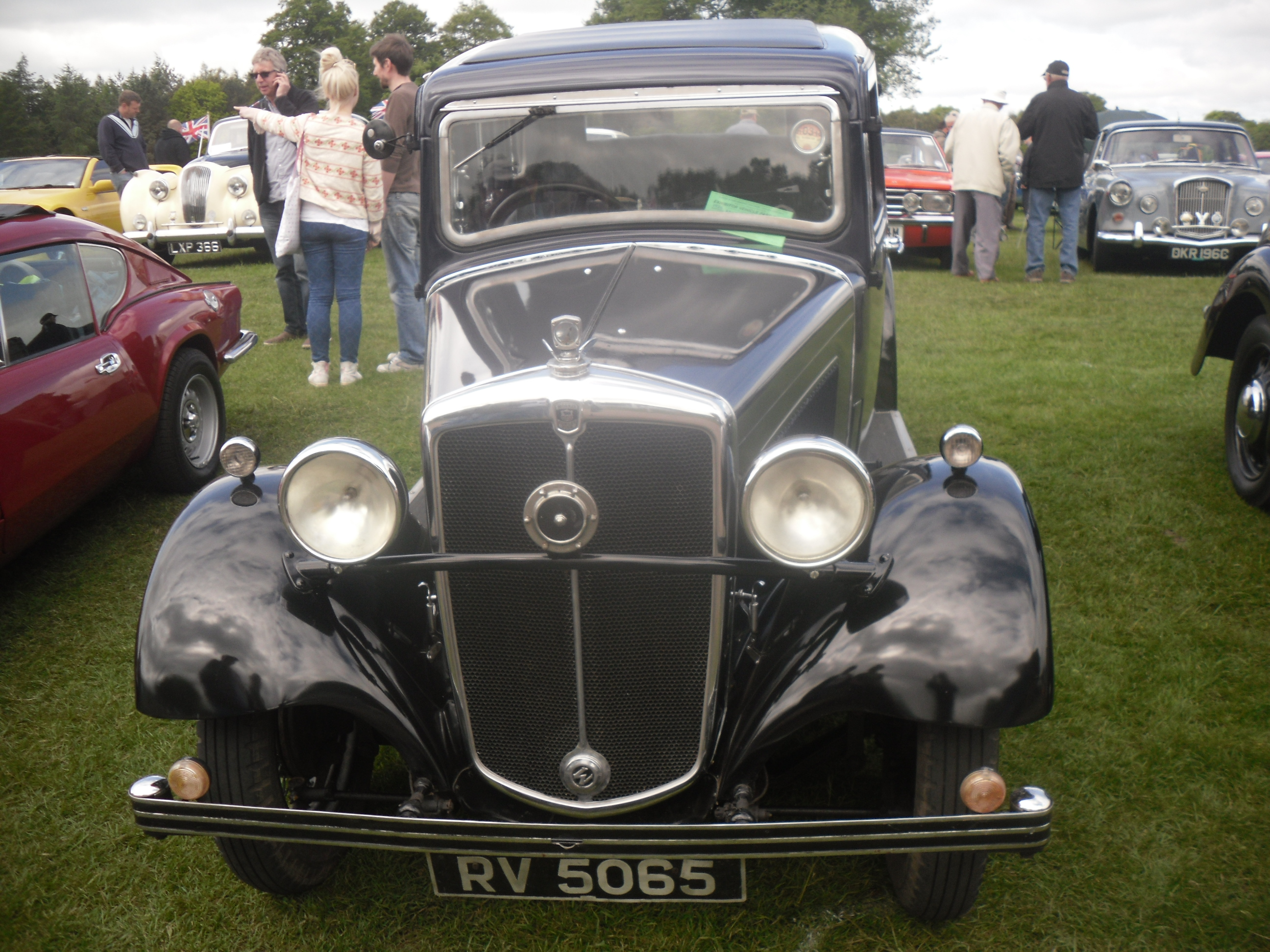 1934 Morris CowleyDVLA first registered 16 May 1934, 1482ccTatton Park 2 June 2013